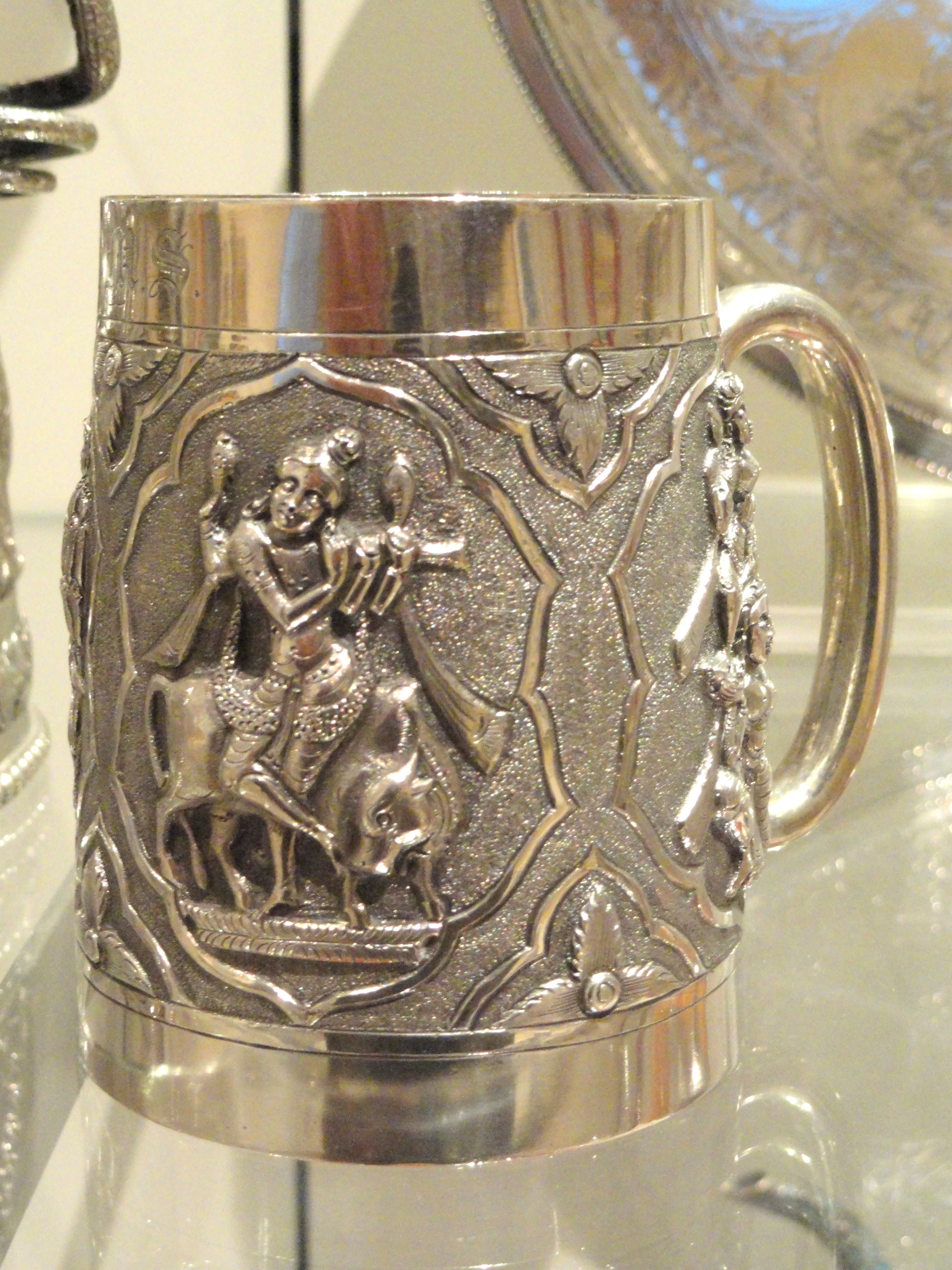 Exhibit in the Royal Ontario Museum, Toronto, Ontario, Canada. This exhibit is old enough so that it is in the public domain, and photography was permitted in the museum. I took this photograph and release it into the public domain.